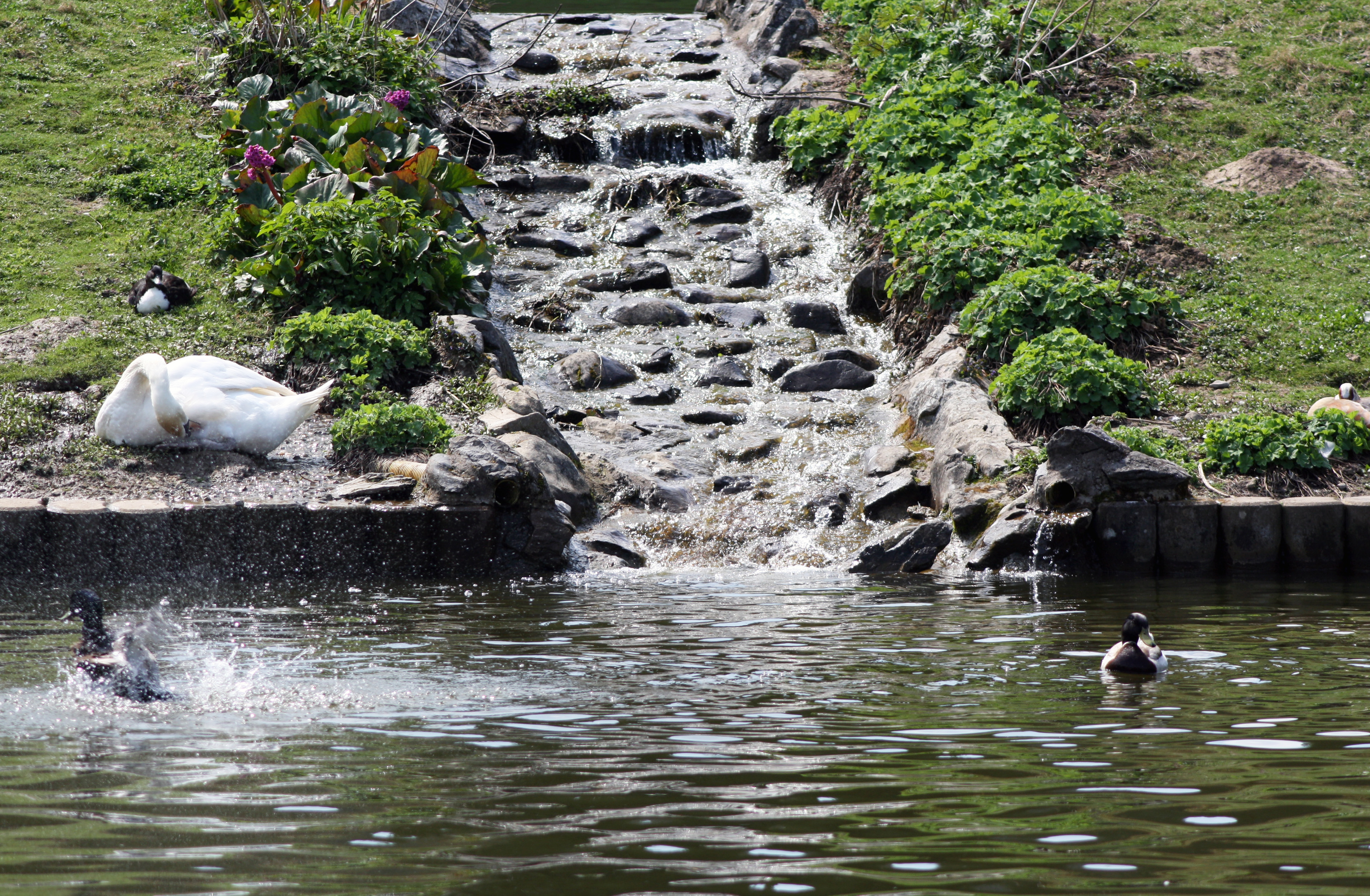 möhne river in Brilon, Germany